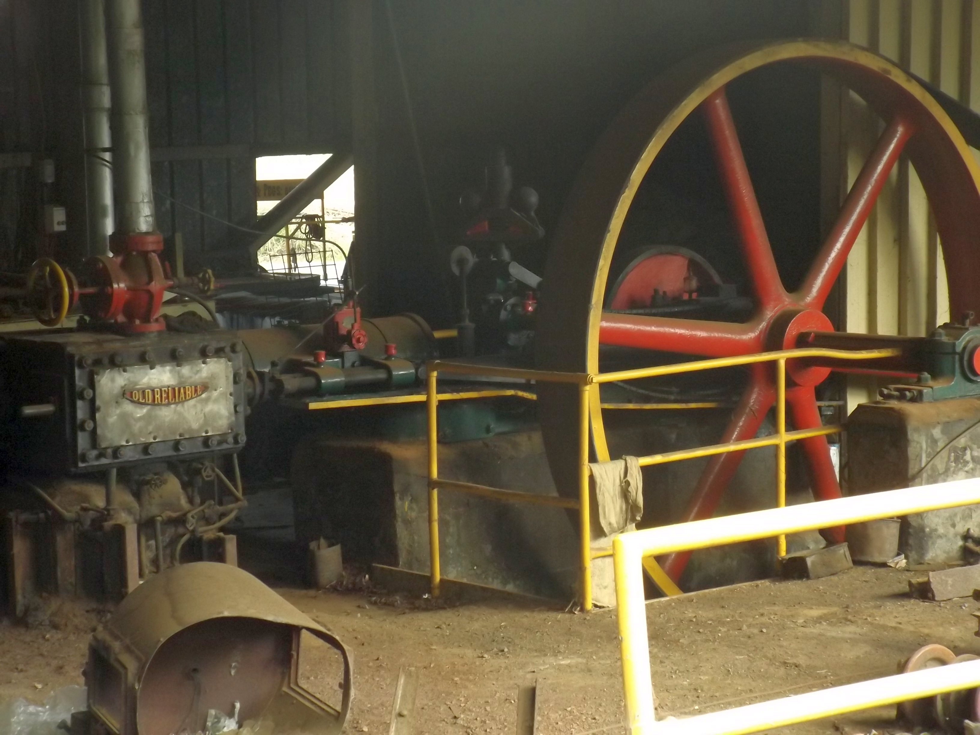 Photo of Grandchester Sawmill at Grandchester, Ipswich, Queensland, Australia.